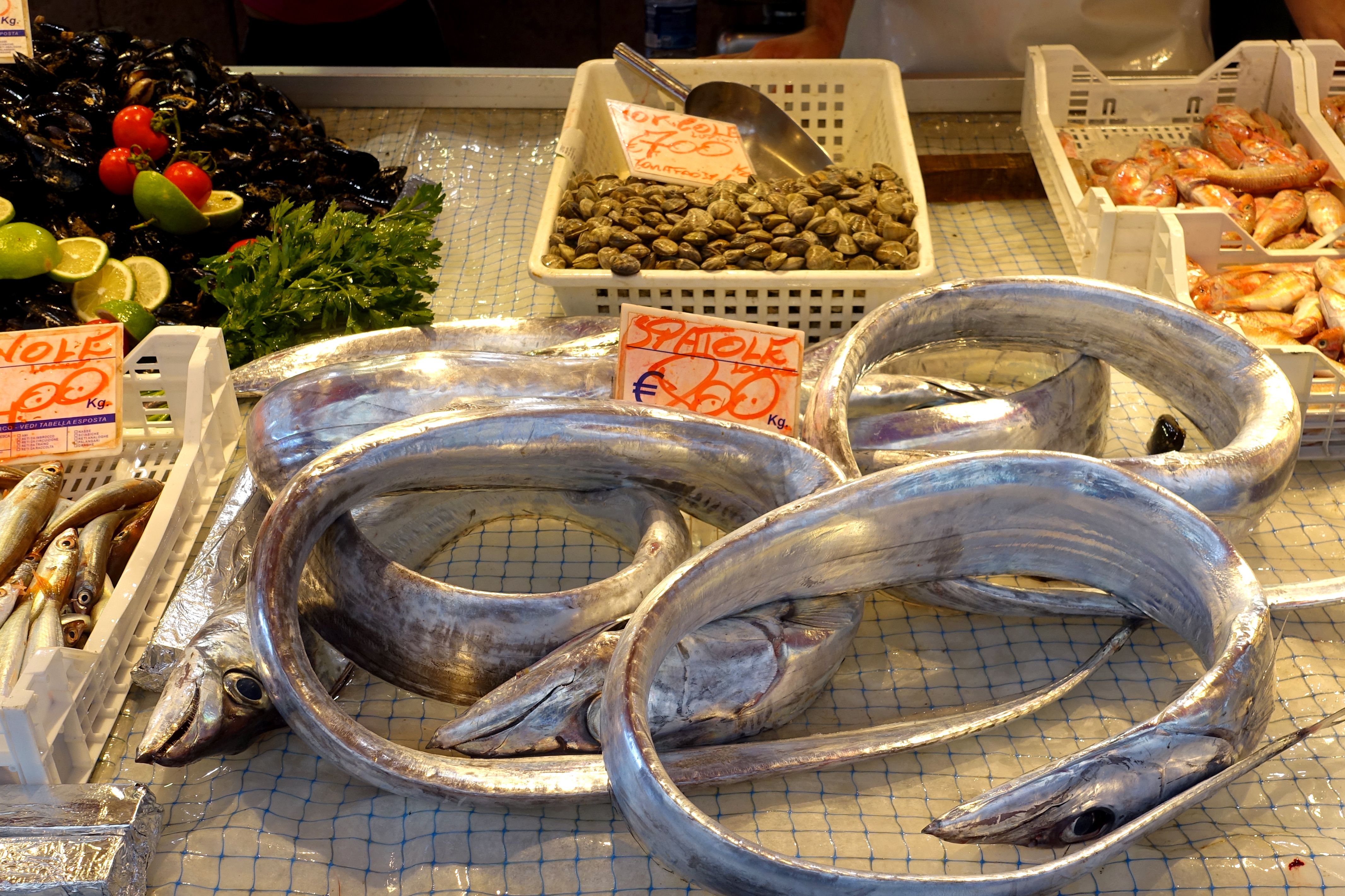 Ortigia,Siracusa street mkt Spatole